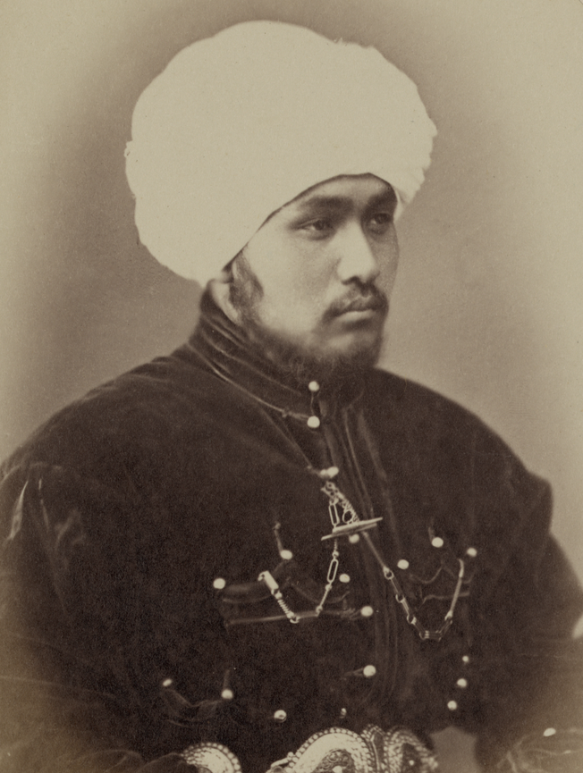 This photograph is from the ethnographical part of Turkestan Album, a comprehensive visual survey of Central Asia undertaken after imperial Russia assumed control of the region in the 1860s. Commissioned by General Konstantin Petrovich von Kaufman (1818–82), the first governor-general of Russian Turkestan, the album is in four parts spanning six volumes: “Archaeological Part” (two volumes); “Ethnographic Part” (two volumes); “Trades Part” (one volume); and “Historical Part” (one volume). The principal compiler was Russian Orientalist Aleksandr L. Kun, who was assisted by Nikolai V. Bogaevskii. The album contains some 1,200 photographs, along with architectural plans, watercolor drawings, and maps. The “Ethnographic Part” includes 491 individual photographs on 163 plates. The photographs show individuals representing the different peoples of the region (Plates 1–33); daily life and rituals (Plates 34–91); and views of villages and cities, street vendors, and commercial activities (Plates 92–163). Clothing and dress; Ethnographic photographs; Headgear; Men; Photographic surveys; Portrait photographs; Portraits; Turbans; Turkic peoples